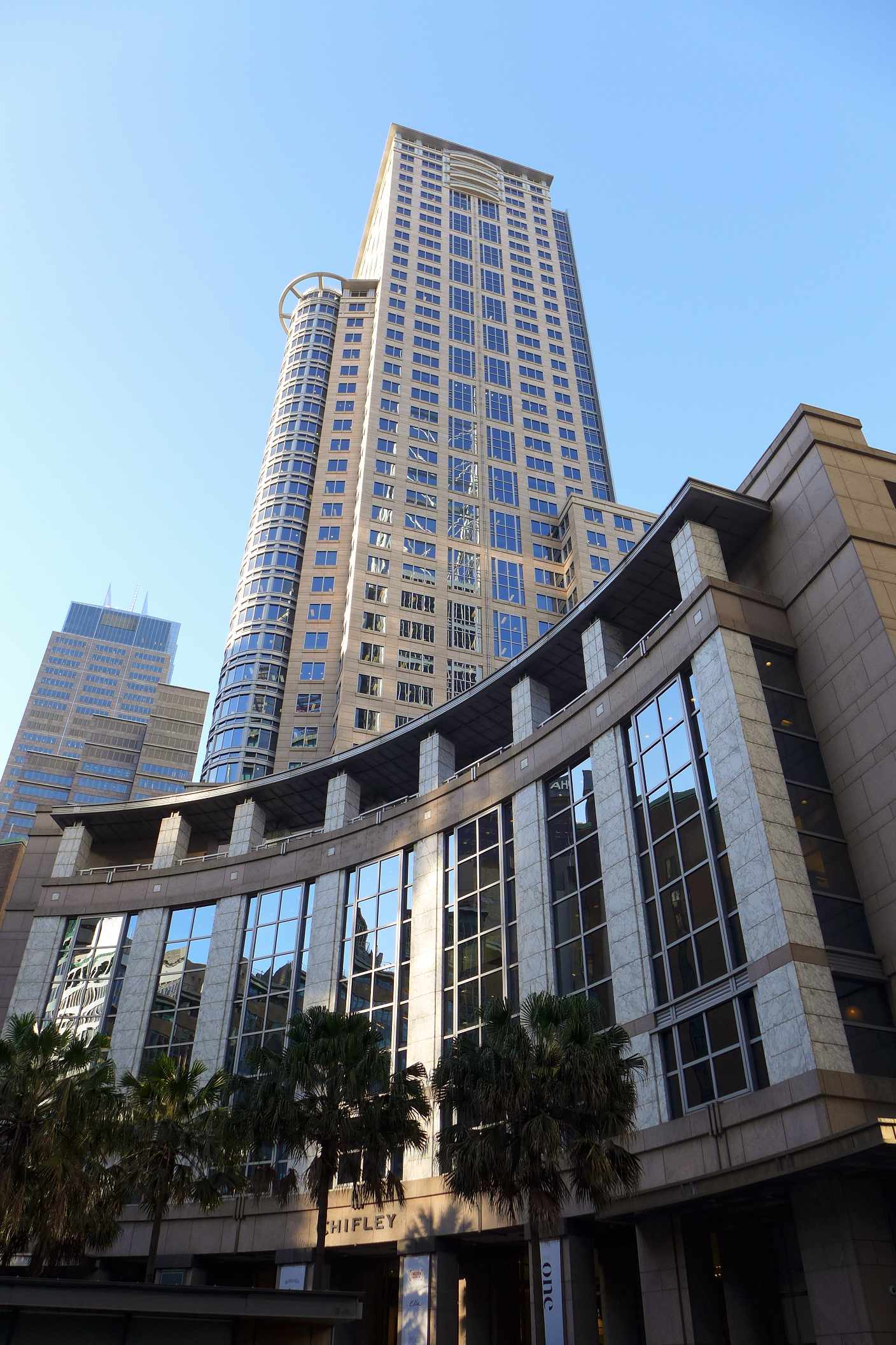 Chifley Tower